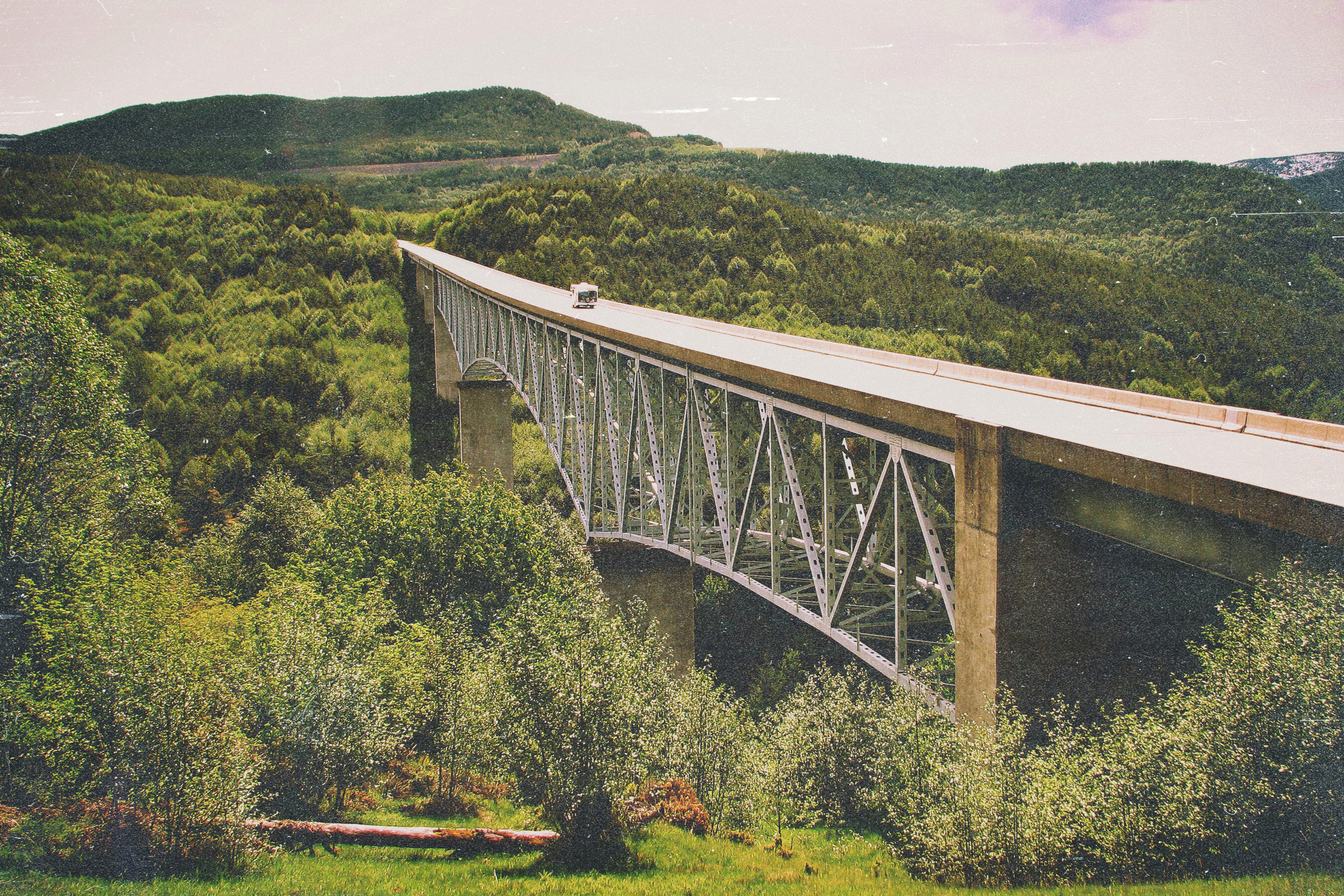 Hoffstadt Creek Bridge. Cowlitz County, Washington.